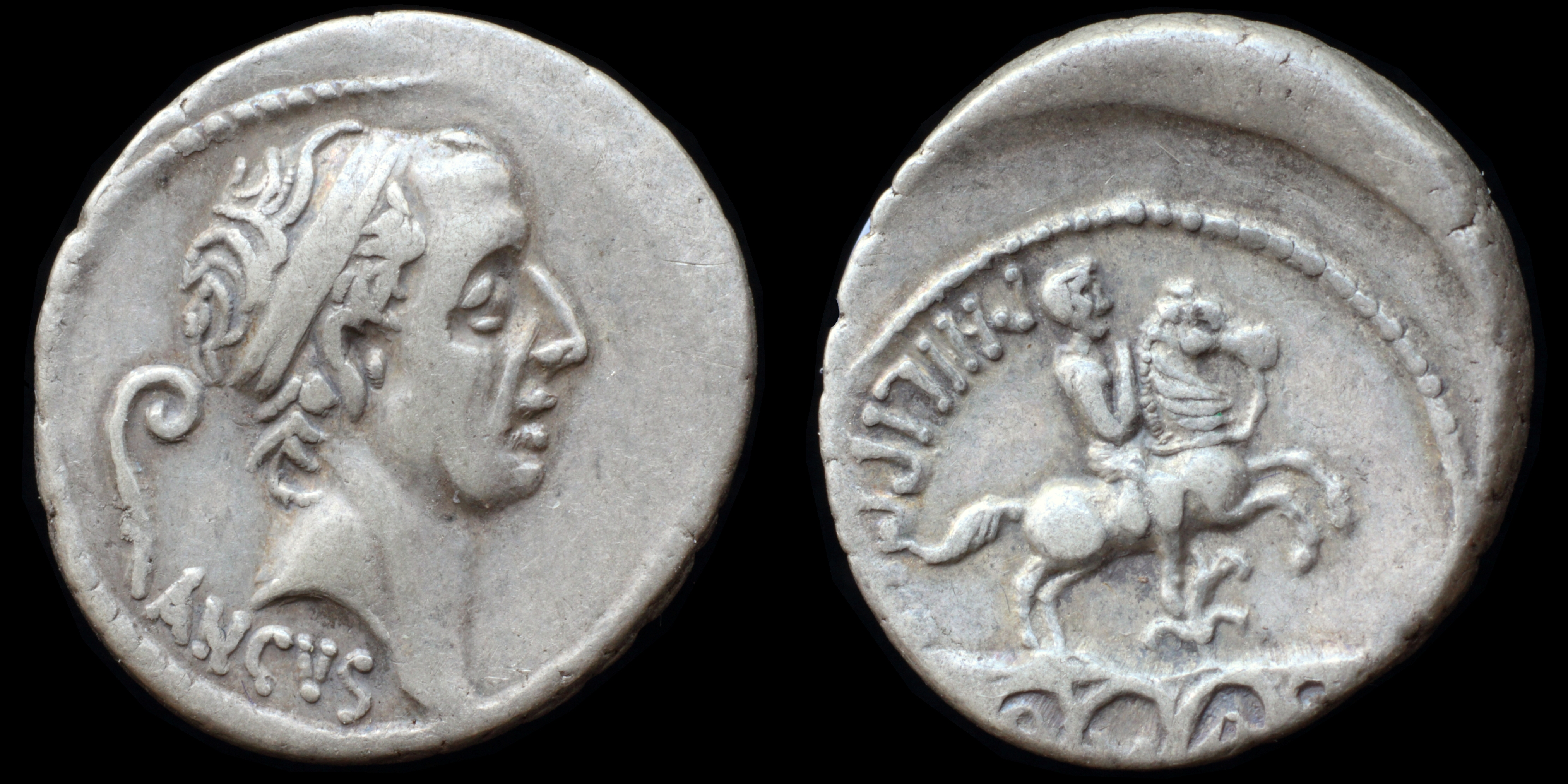 sivler denarius struck in Rome 57 BC. Obverse: diademed head of Ancus Marcius to right, lituus behind ANCVS Reverse: equestrian statue right on 5 archs of aquaduct (Aqua Marcia), flower below PHILIPPVS A-Q-V-A-(MAR) references: SRCV I 382, Sydenham 919, Crawford 425/1, RSC